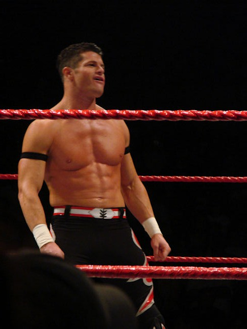 professional wrestler Matt Sydal